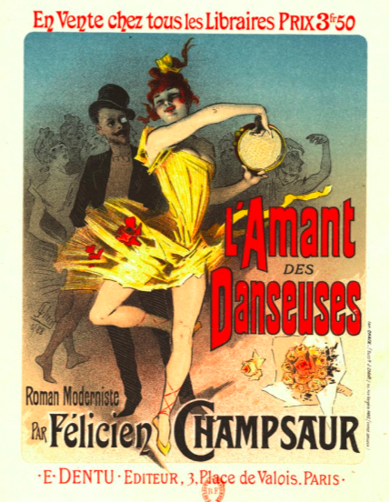 Advertising lithographic poster for L'Amant des danseuses. Roman moderniste, by Félicien Champsaur